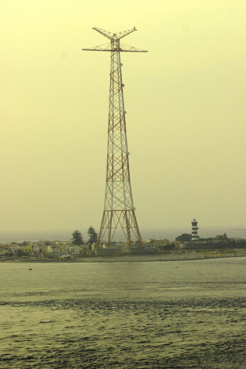 Abandoned electric tower on Sicily side of the Messina Straits